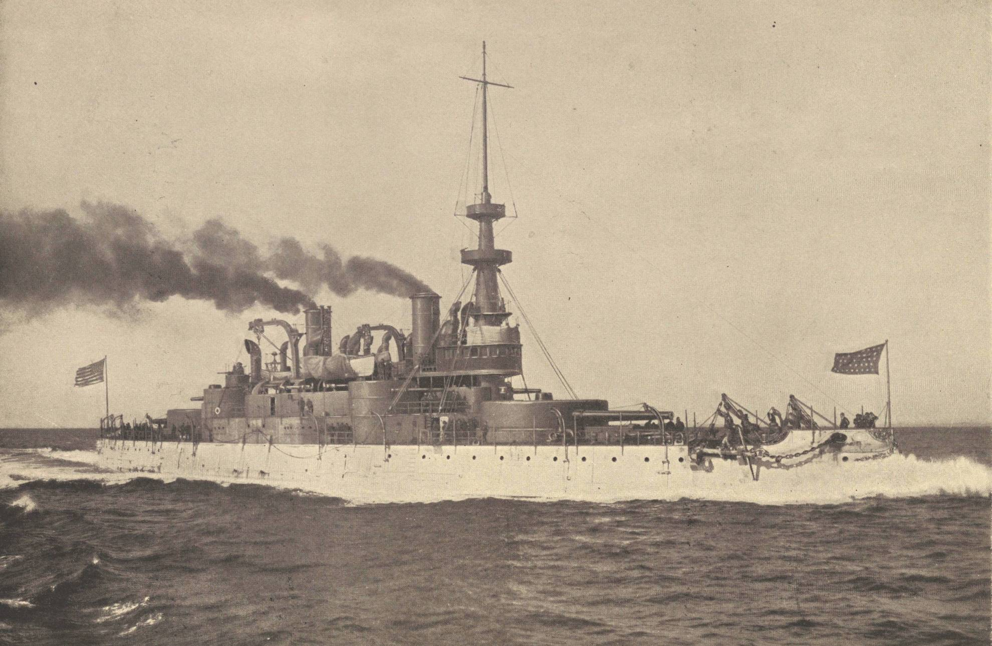 USS Oregon (BB-3). Caption (cropped out) read: One of the most renowned ships of the American Navy is the mighty Battleship Oregon. Her famous run from San Francisco around Cape Horn to take part in the Battle of Santiago has never been equalled by any battleship in the world's history. After she won fame in the destruction of Cervera's fleet she was ordered to Manila by Admiral Dewey "for political reasons" and remained there throughout the Philippine War hurling her 13-inch shells into the Insurgent ranks when occasion required.